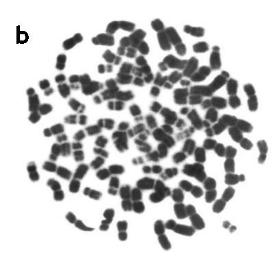 Metaphase spread of the Viscacha rat (Tympanoctomys barrerae, 2n = 102), the species with the highest chromosome number